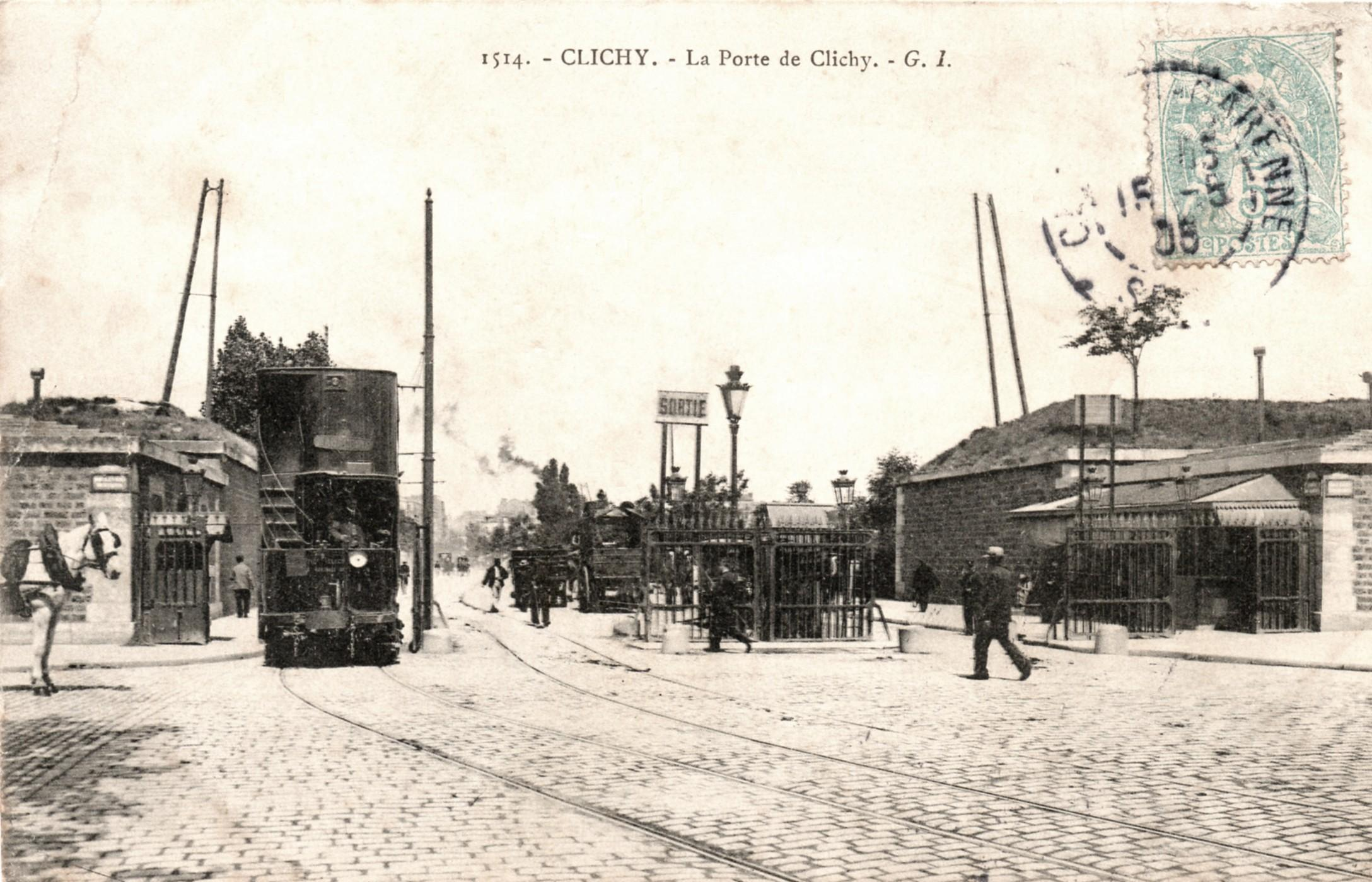 Electric tram in Clichy (France near Paris) around 1900, Clichy-Madeleine network, vintage postcard